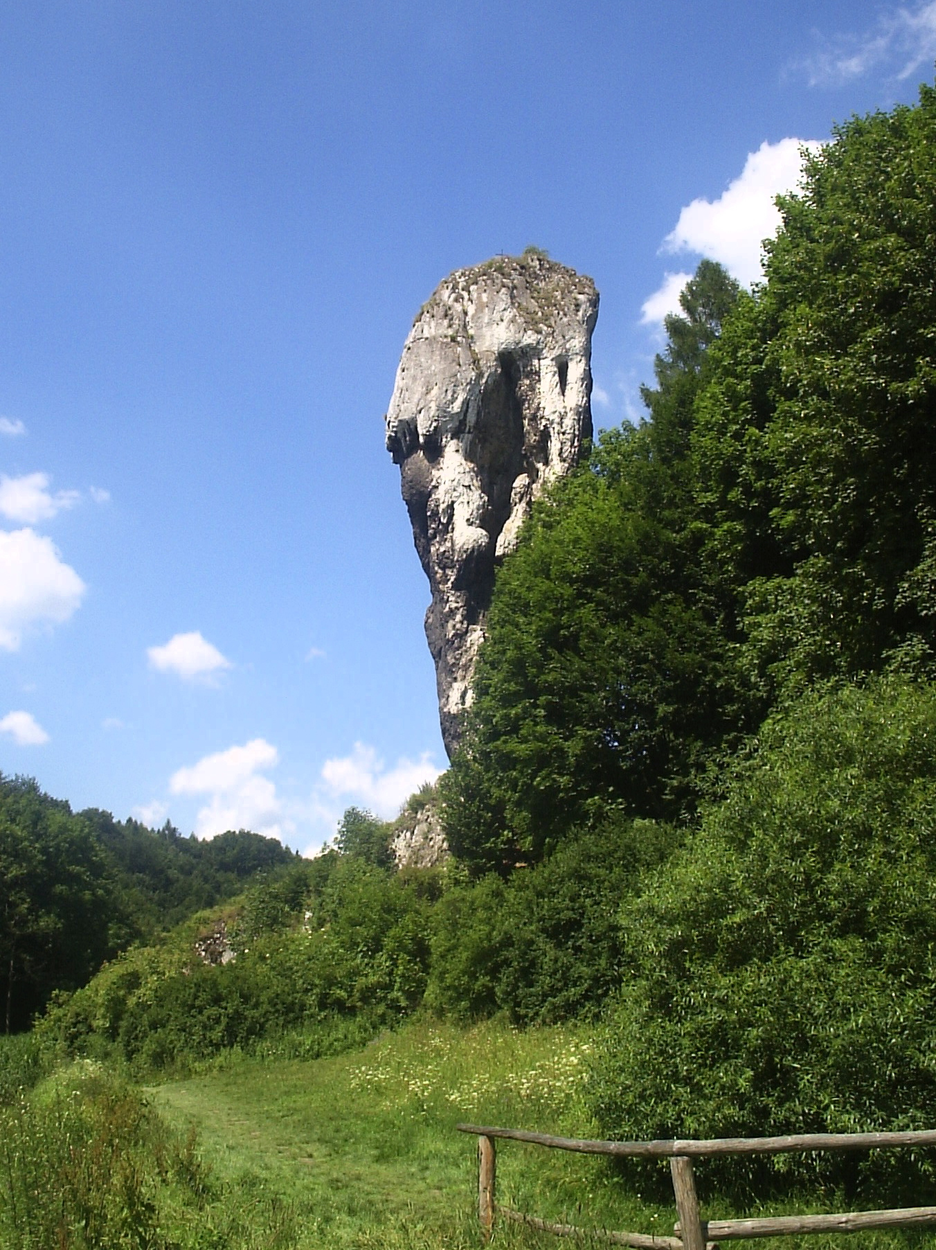 Maczuga Herkulesa, near Pieskowa Skała, Poland